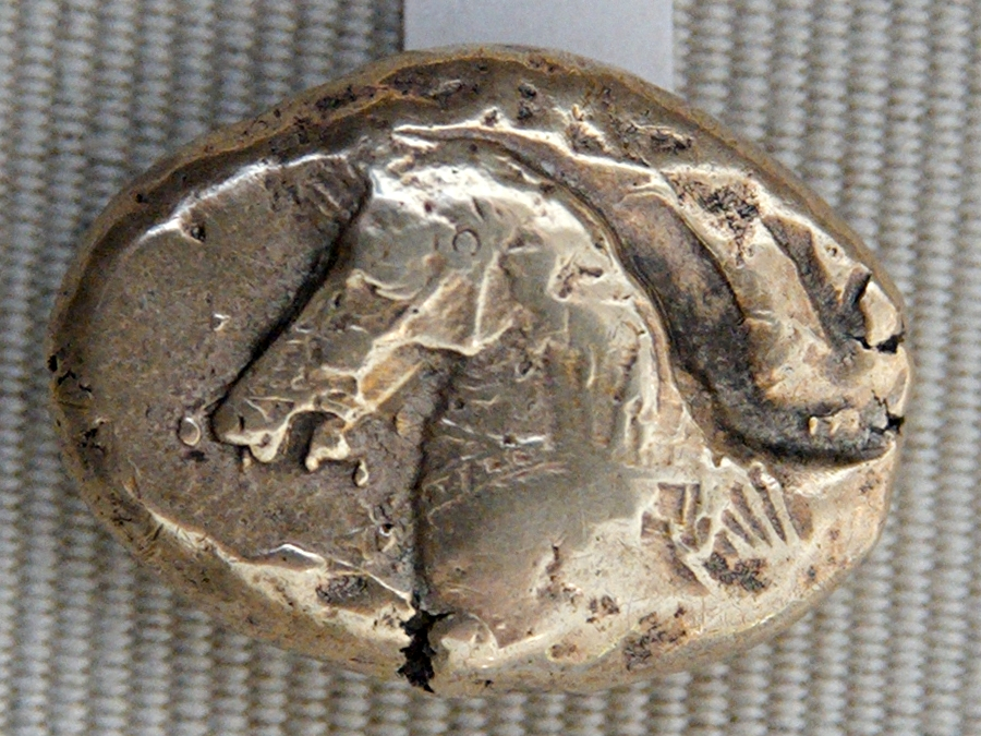 Electrum stater, Ionia, ca. 600–580 BC, obverse: horse protome to the left.